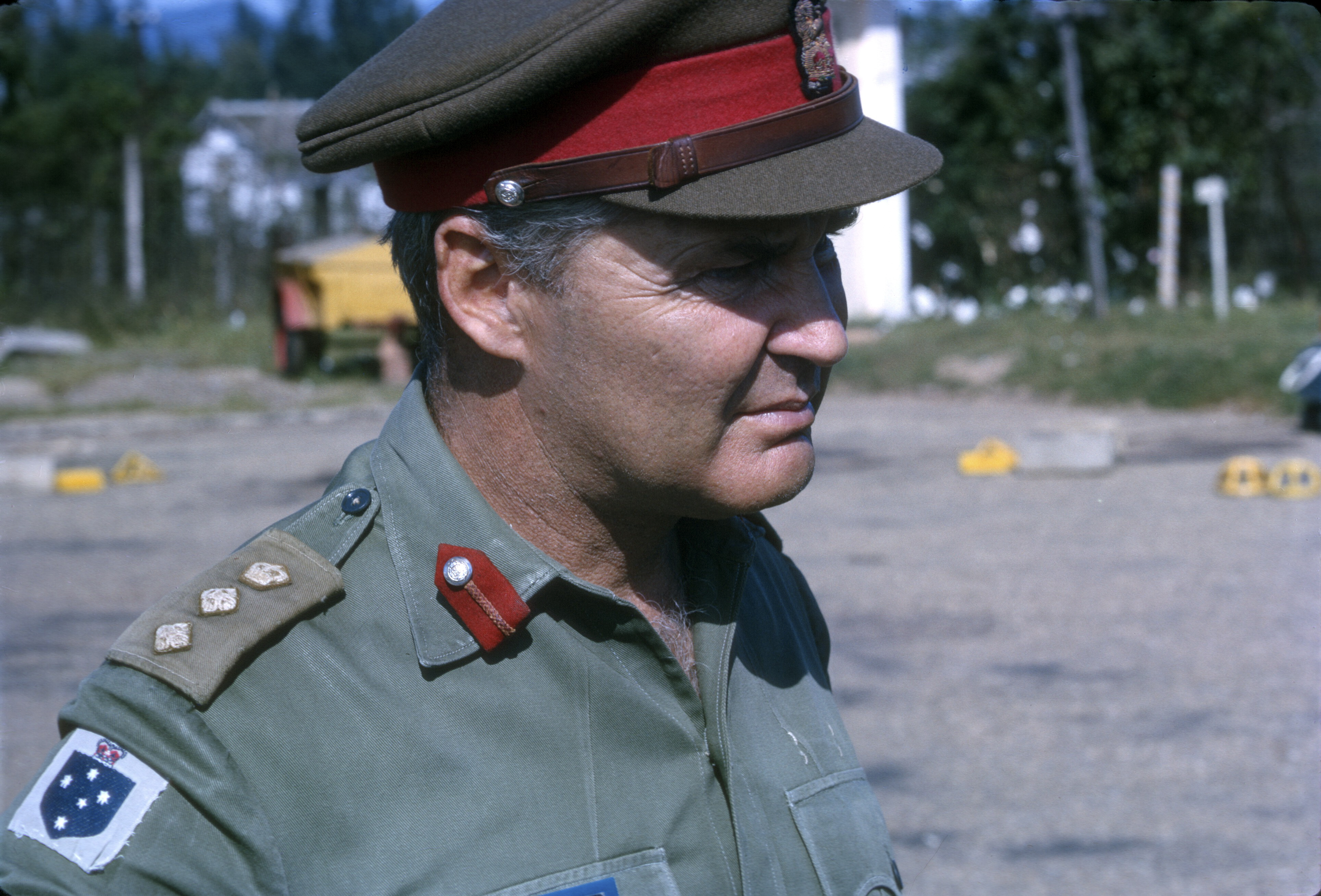 Colonel Ted Serong in Saigon, CIC Australian forces as taken by Fr Michael S Parer